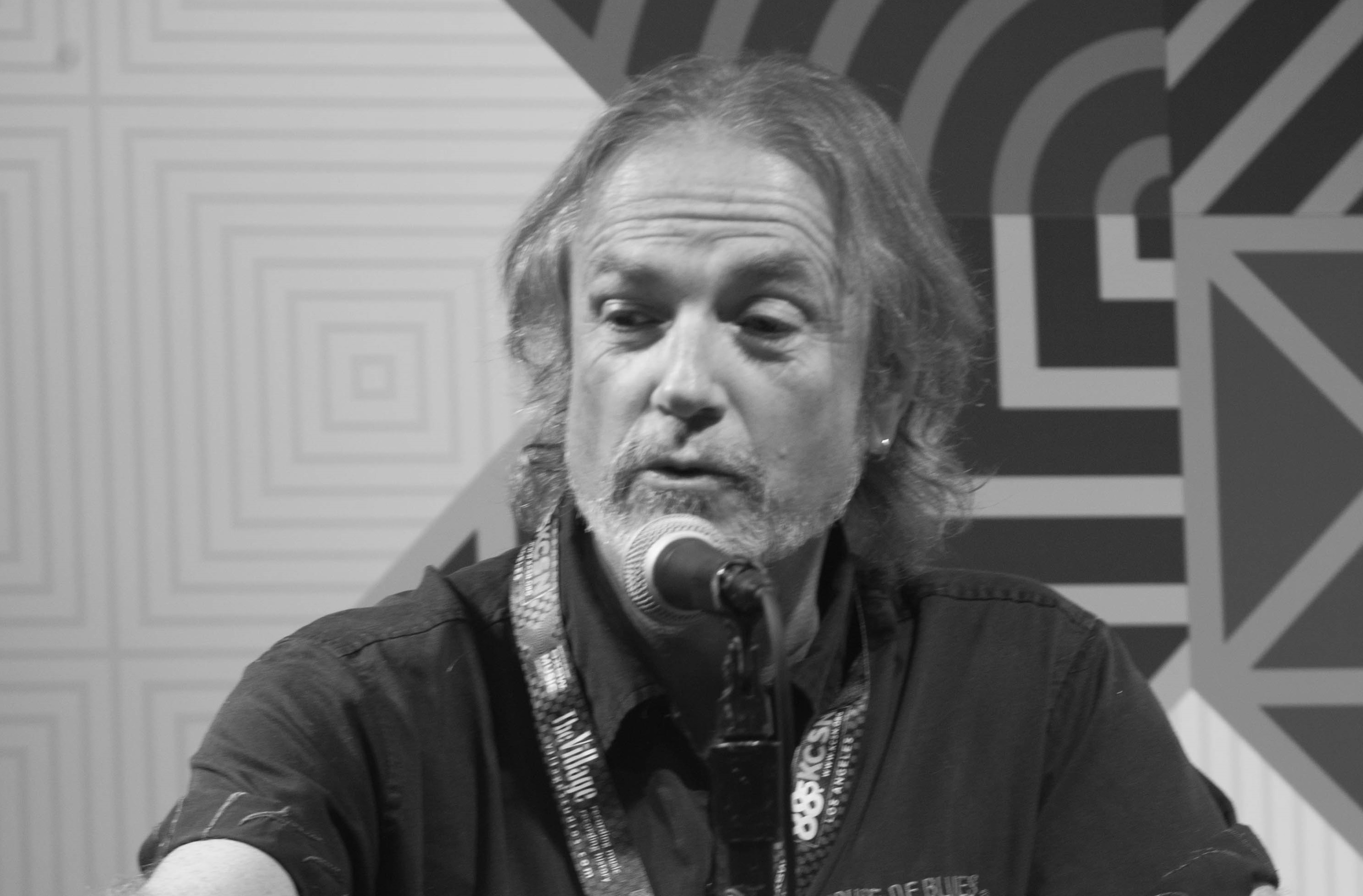 Steve Kilbey at SXSW in 2015